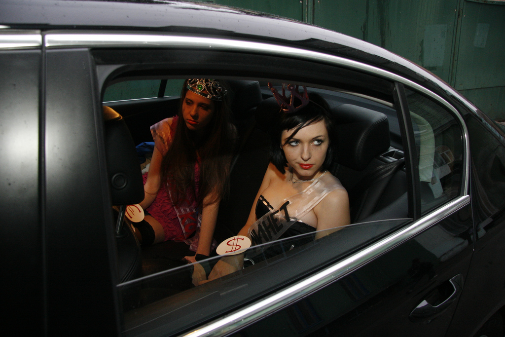 FEMEN MISS UKRAINE UNIVERSE PROTEST. Dec 09